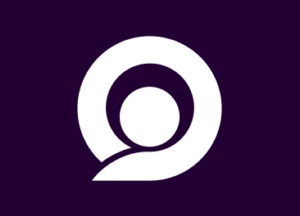 Flag of Tagami Niigata